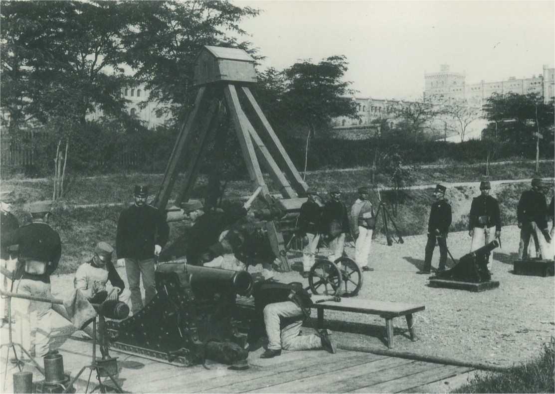 Austro-Hungarian Artillery unit at the viennese "Arsenal"